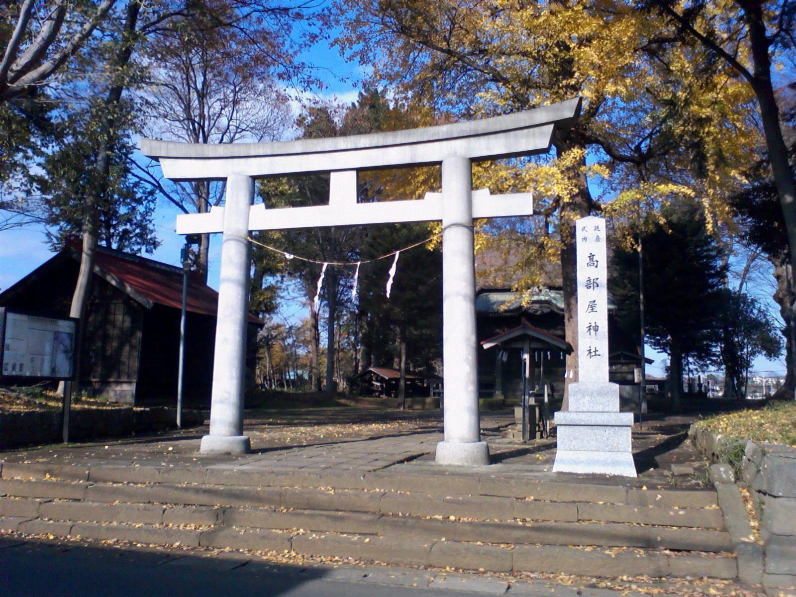 Takabeya Shrine, - in Isehara city, Kanagawa pref., Japan.